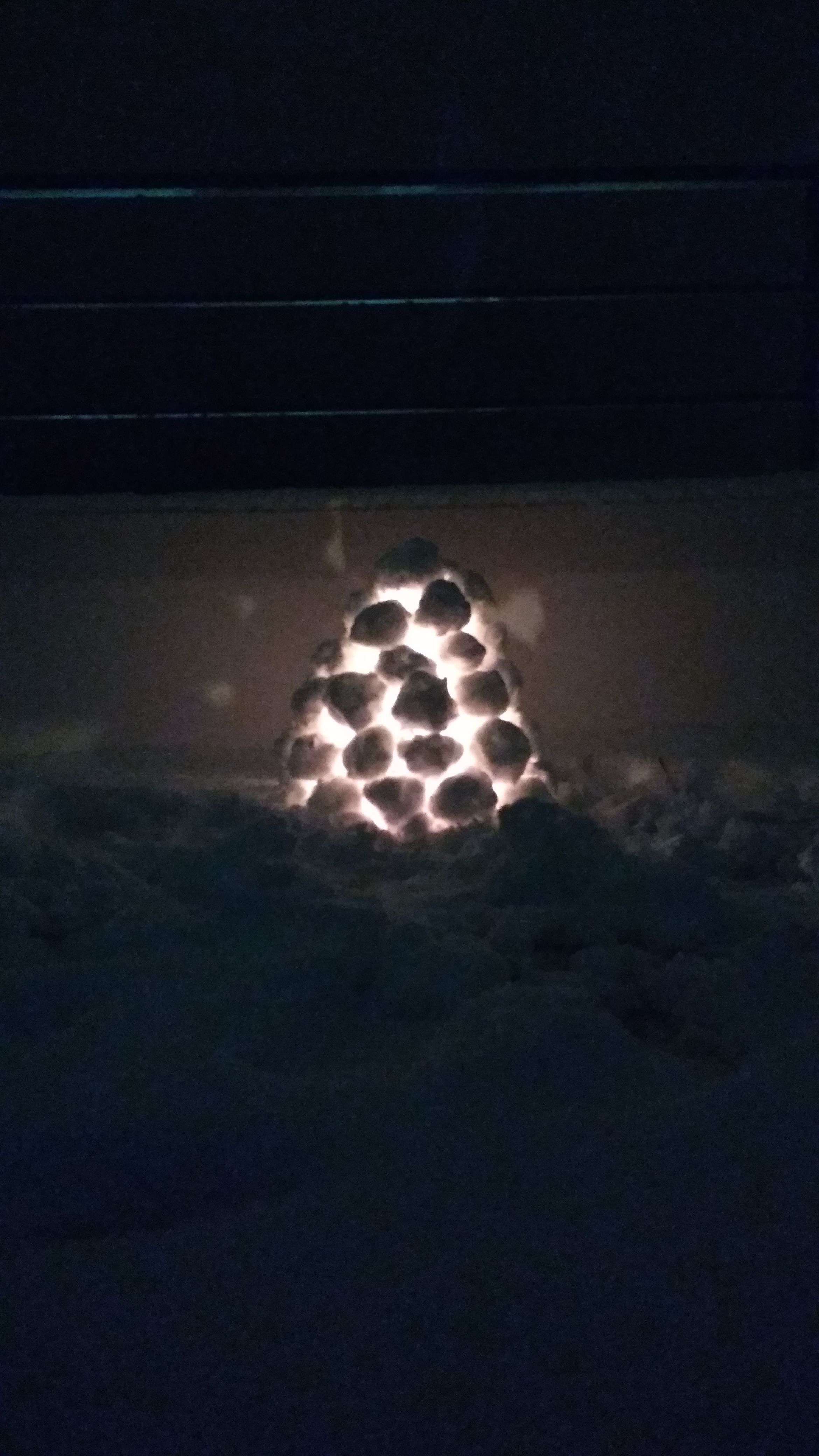 Igloo-shaped "snow lamp"